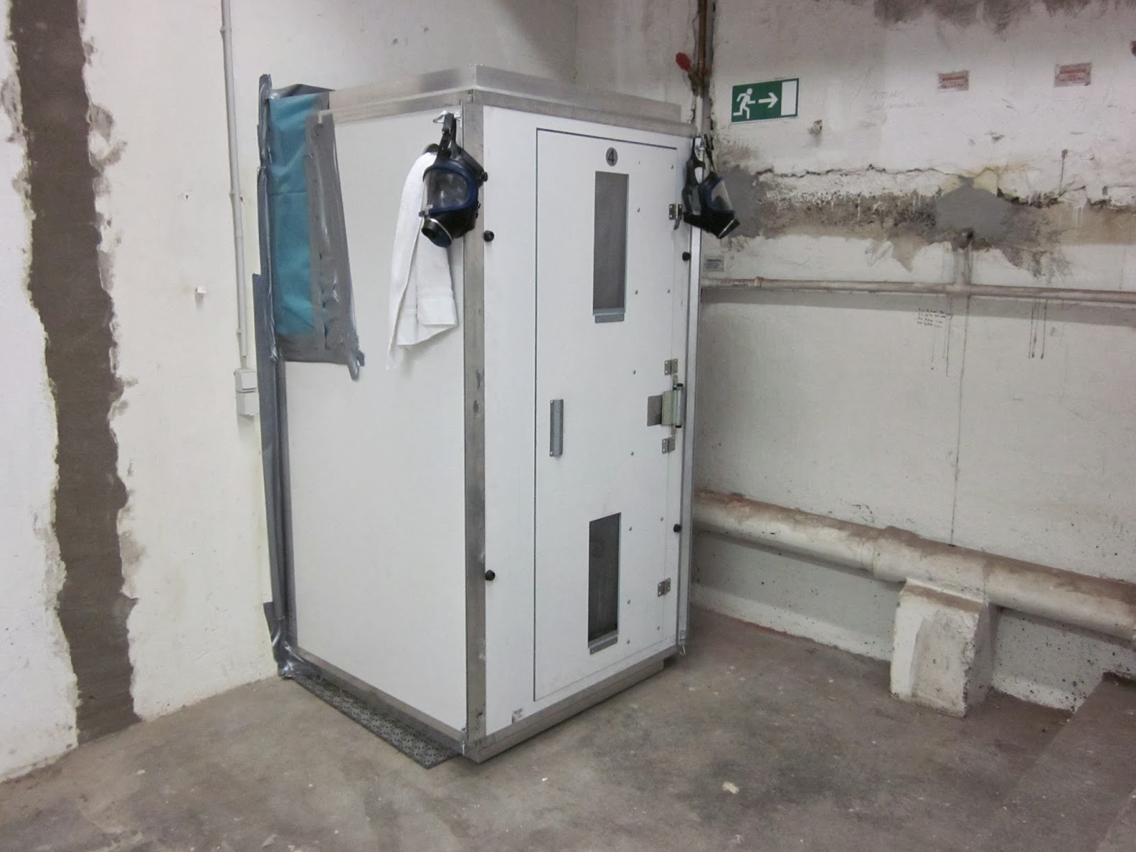 black and white for door